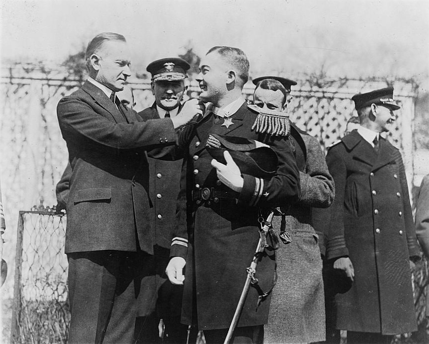 President Calvin Coolidge places the Medal of Honor around the neck of Lieutenant Thomas J. Ryan, USN, as other naval officers look on.